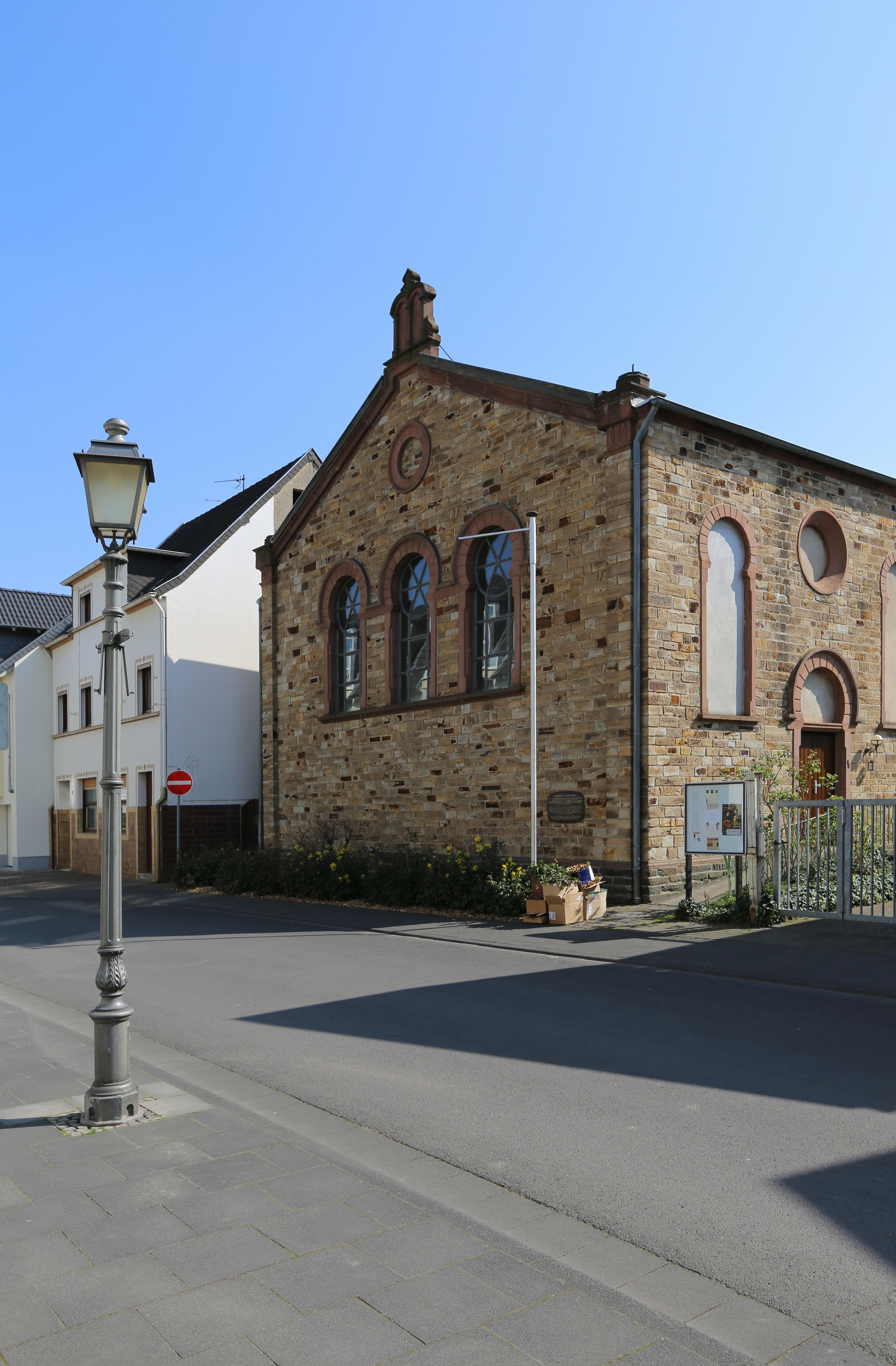 Eormer Synagoge Ahrweiler, north side